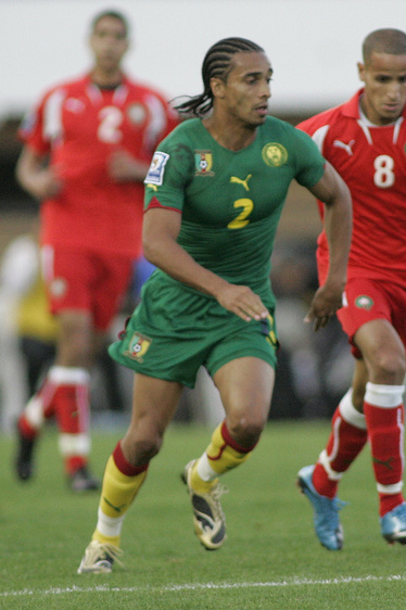 Cameroonian football player Benoît Assou-Ekotto in match against Morocco